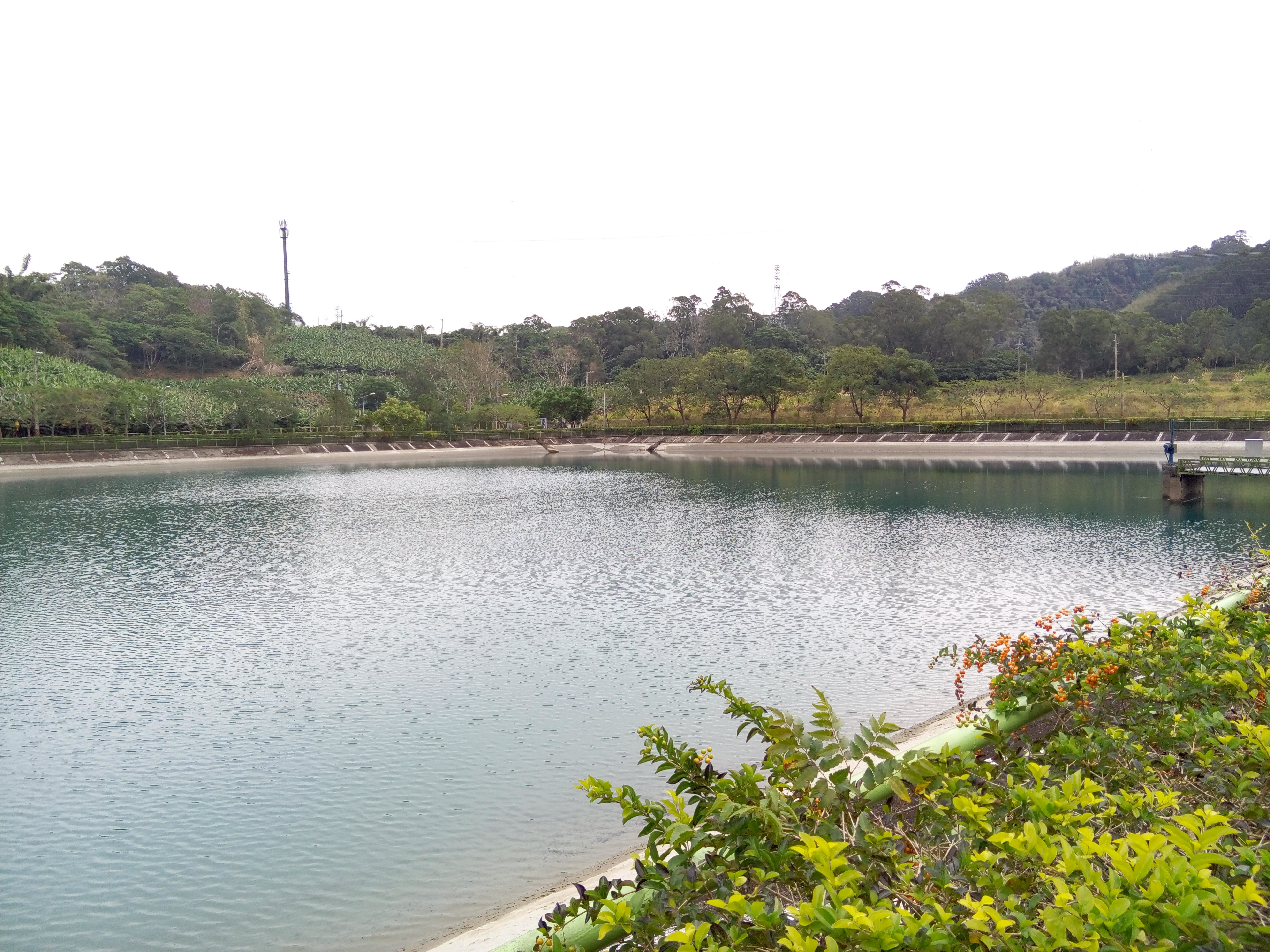 Taiwan(R.O.C) Taitung Luye Township Luye Waterway